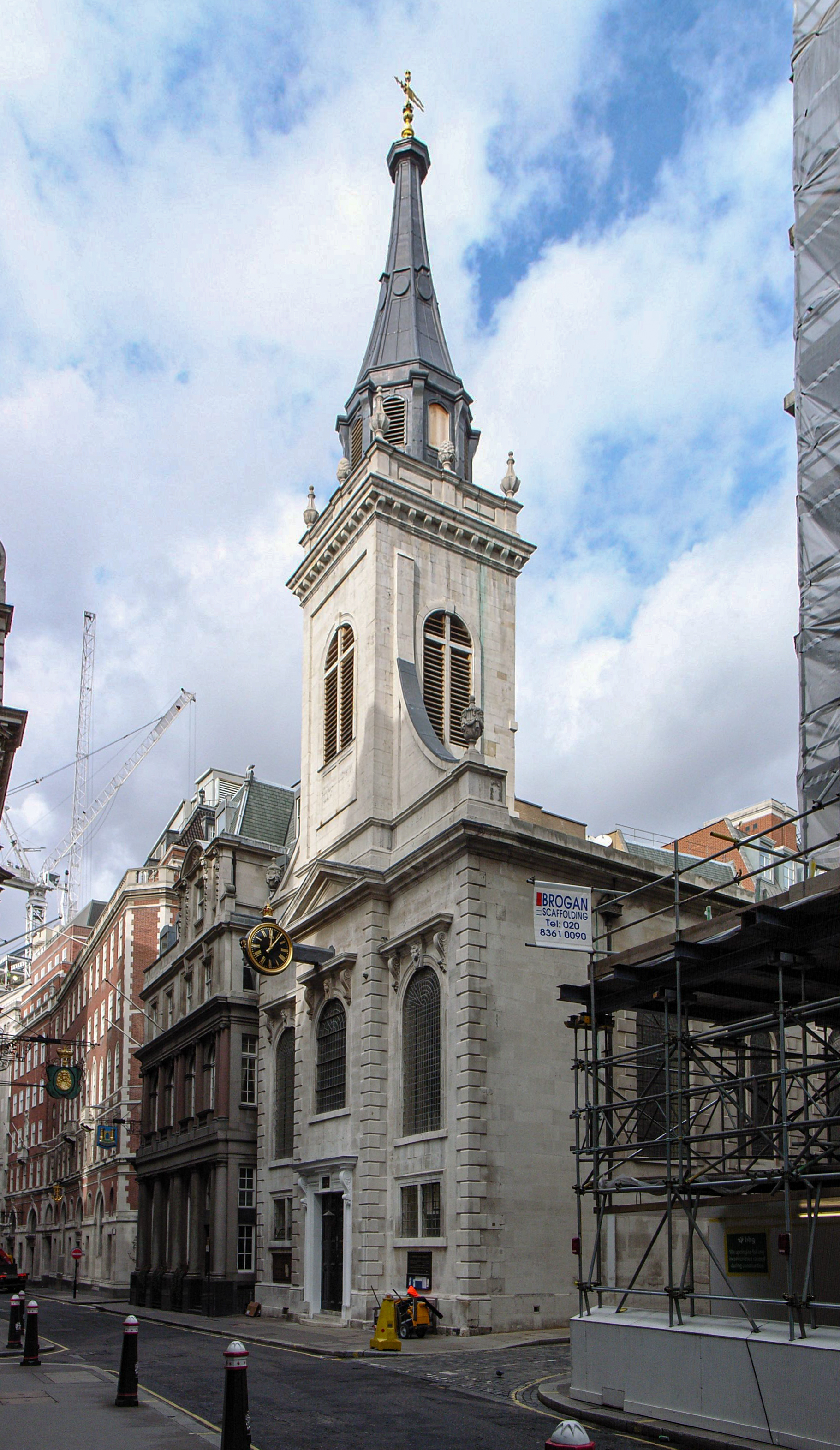 St Edmund the King (1670-9) by Christopher Wren